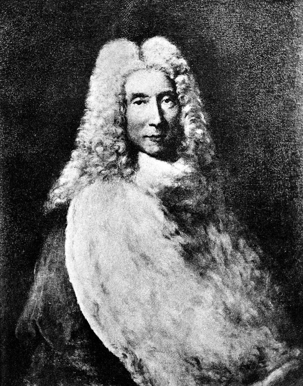 Portrait of Nicolas Andre (Andry) General Collections Keywords: epb; Medicine; Portraits; Nicolas Andre